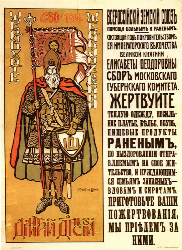 Korovin, Konstantin Alekseevich (1861-1939). Donate to victims of war. Dmitry Donskoy. 1380-1914. Poster, Moscow, 1914. Chromolithograph, 124.5 x 92 cm